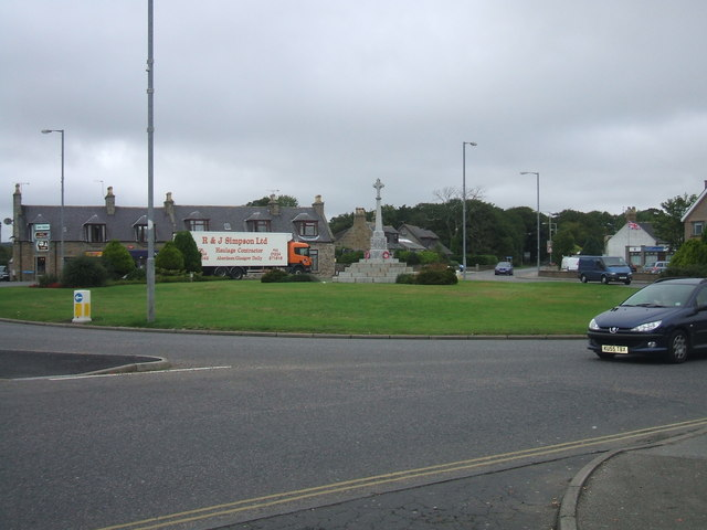 Mintlaw Roundabout. Large roundabout at the intersection of Aberdeen to Fraserburgh + Peterhead to Banff roads. War Memorial at the centre of the island. This roundabout is bisected by the map grid squares NJ999 and NK000 (about where the keep left bollard is).